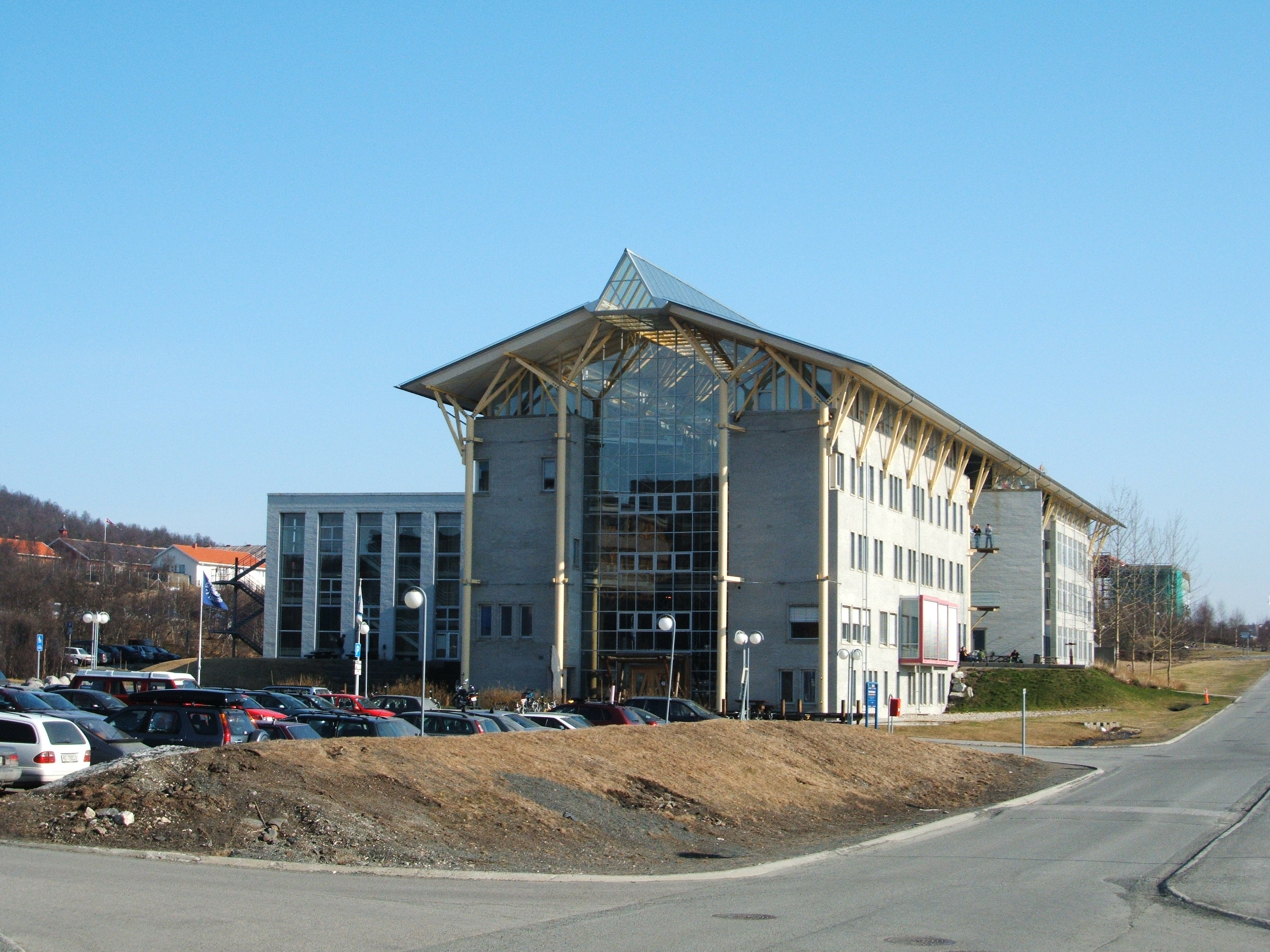 Noregs Fiskerihøgskole is one of the faculties at the University of Tromsø